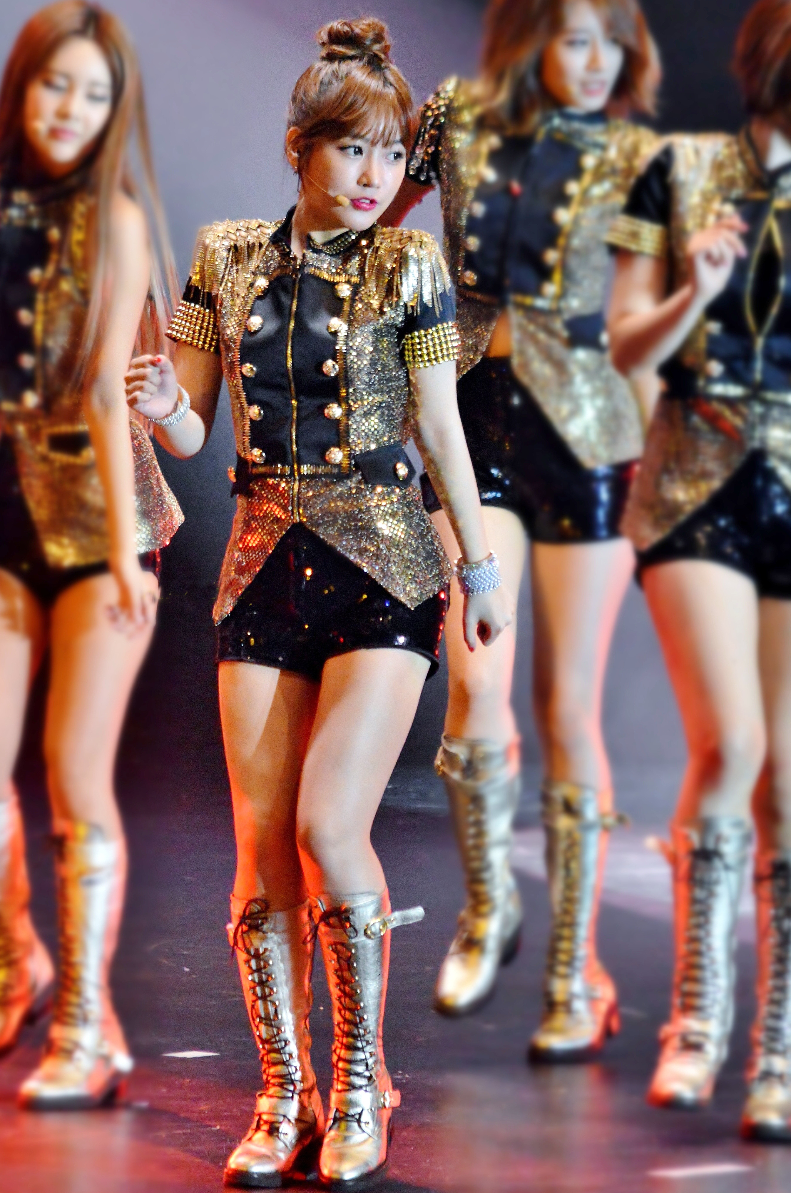 Park So-yeon performing in Hong Kong, in August 10, 2013.